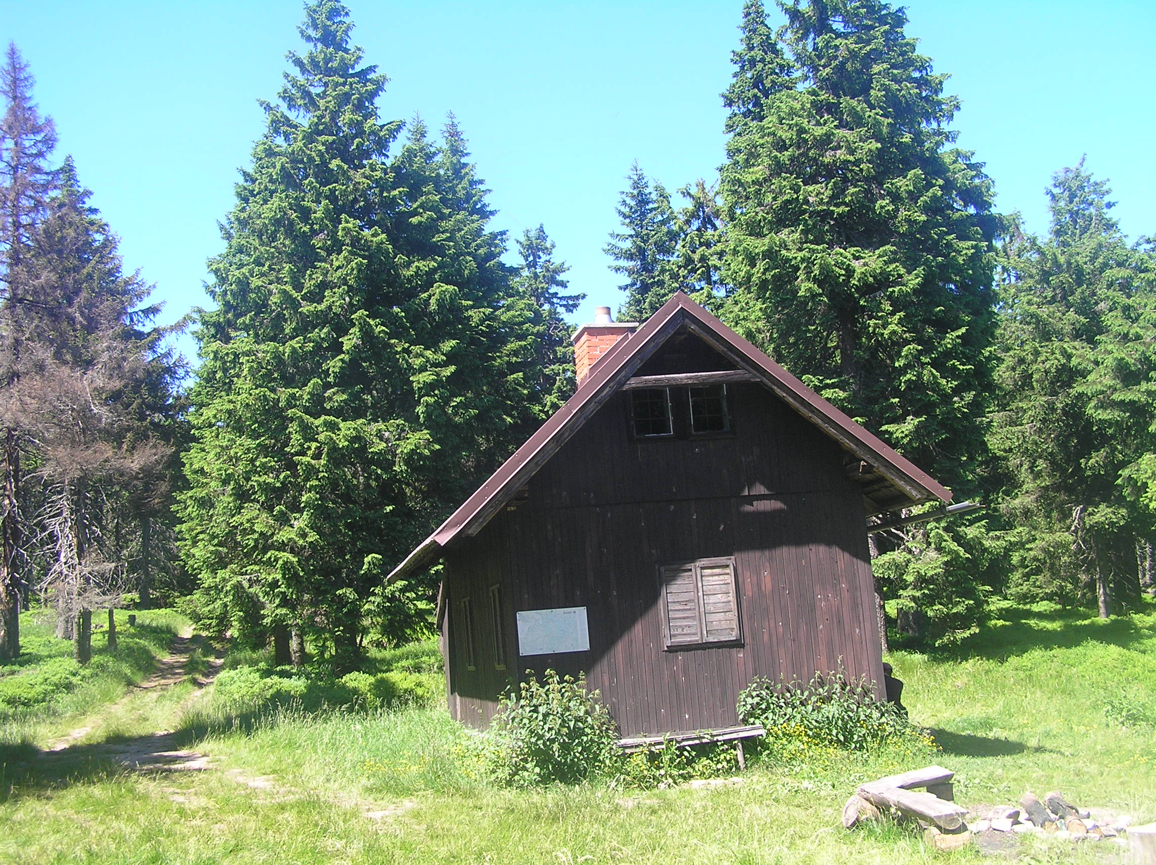 Babuše, Králický Sněžník, Czech Republic